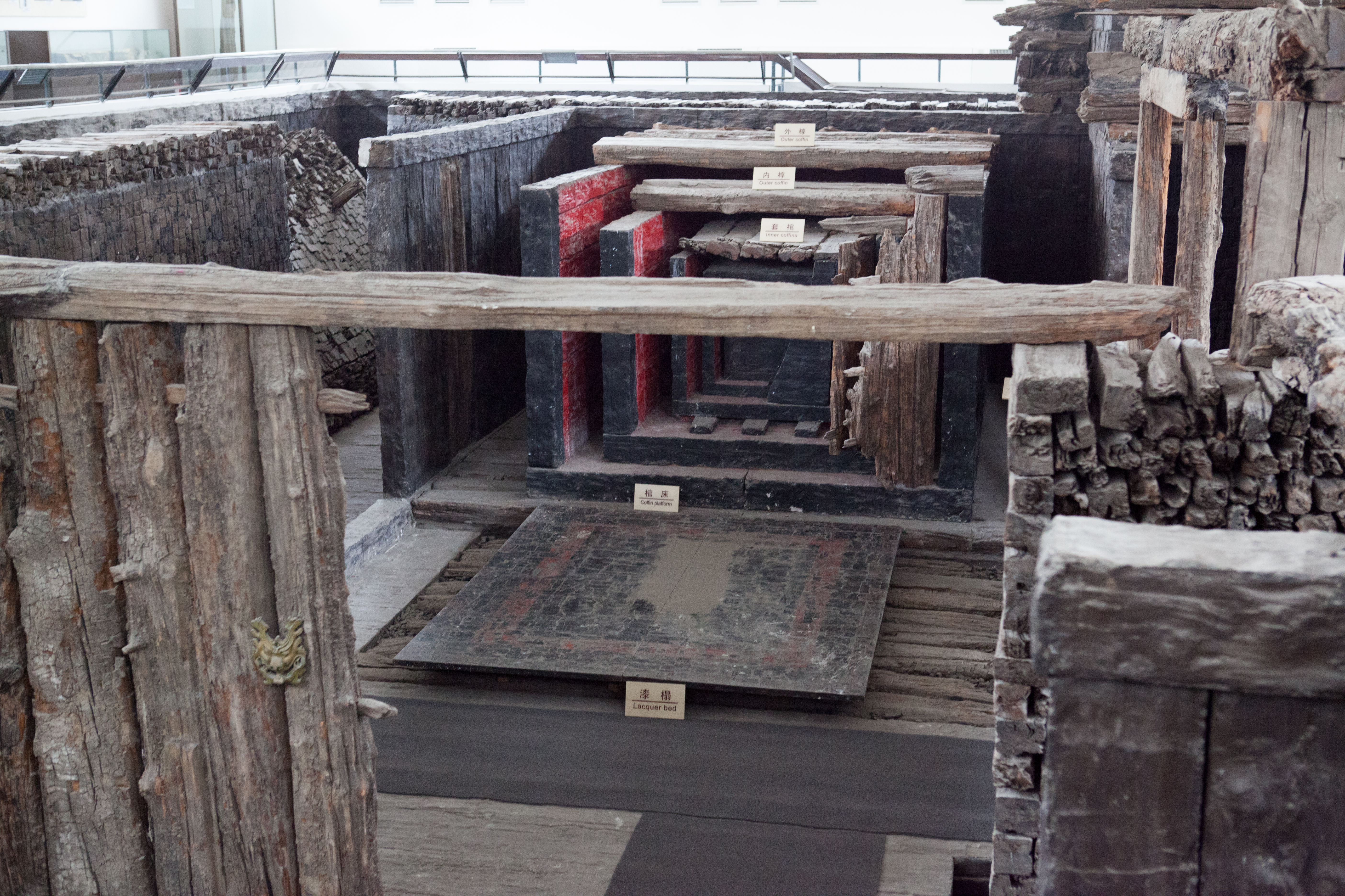 Dabaotai Tomb (ca. 45 BCE) is a Han Dynasty Tomb found in Beijing, China.